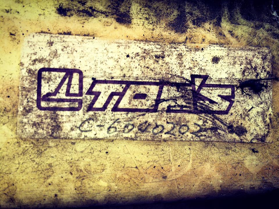 toms authenticity emblem